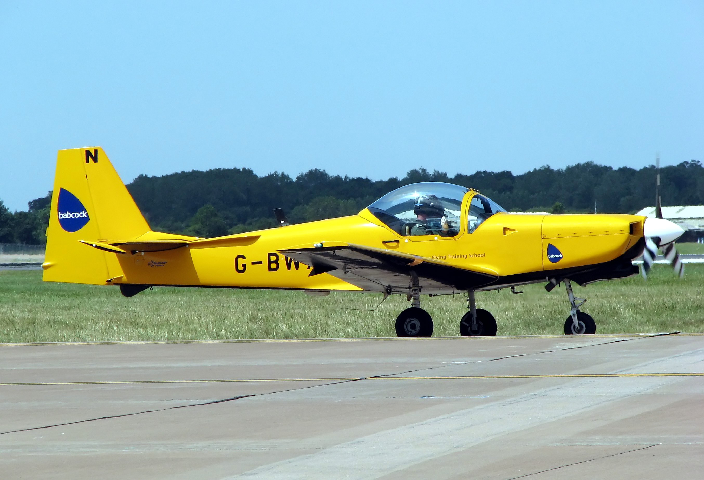 Slingsby Firefly T67M-260 of the UK Defence Elementary Flying Training School, taxiing at the Royal International Air Tattoo, Fairford, Gloucestershire, England. (The DEFTS was established in 2003 as a military flying school for Army and Navy student pilots, using the Firefly as a basic trainer. Student and instructor sit side by side. The Firefly was replaced by the Grob Tutor in November 2009)